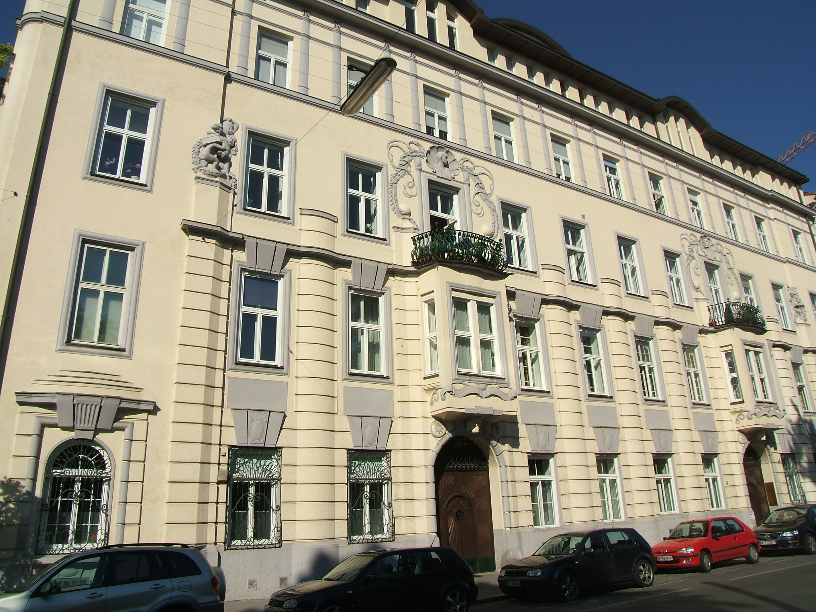 Palais Kranz in Vienna, 9th district Liechtensteinstraße 53-55